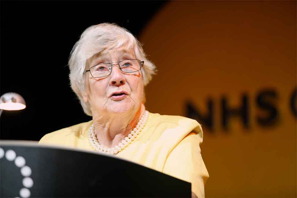 Shirley Williams speaking at the 2011 NHS Confederation annual conference, Manchester, England.